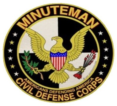 Coat of arms used in patches used by militiamen